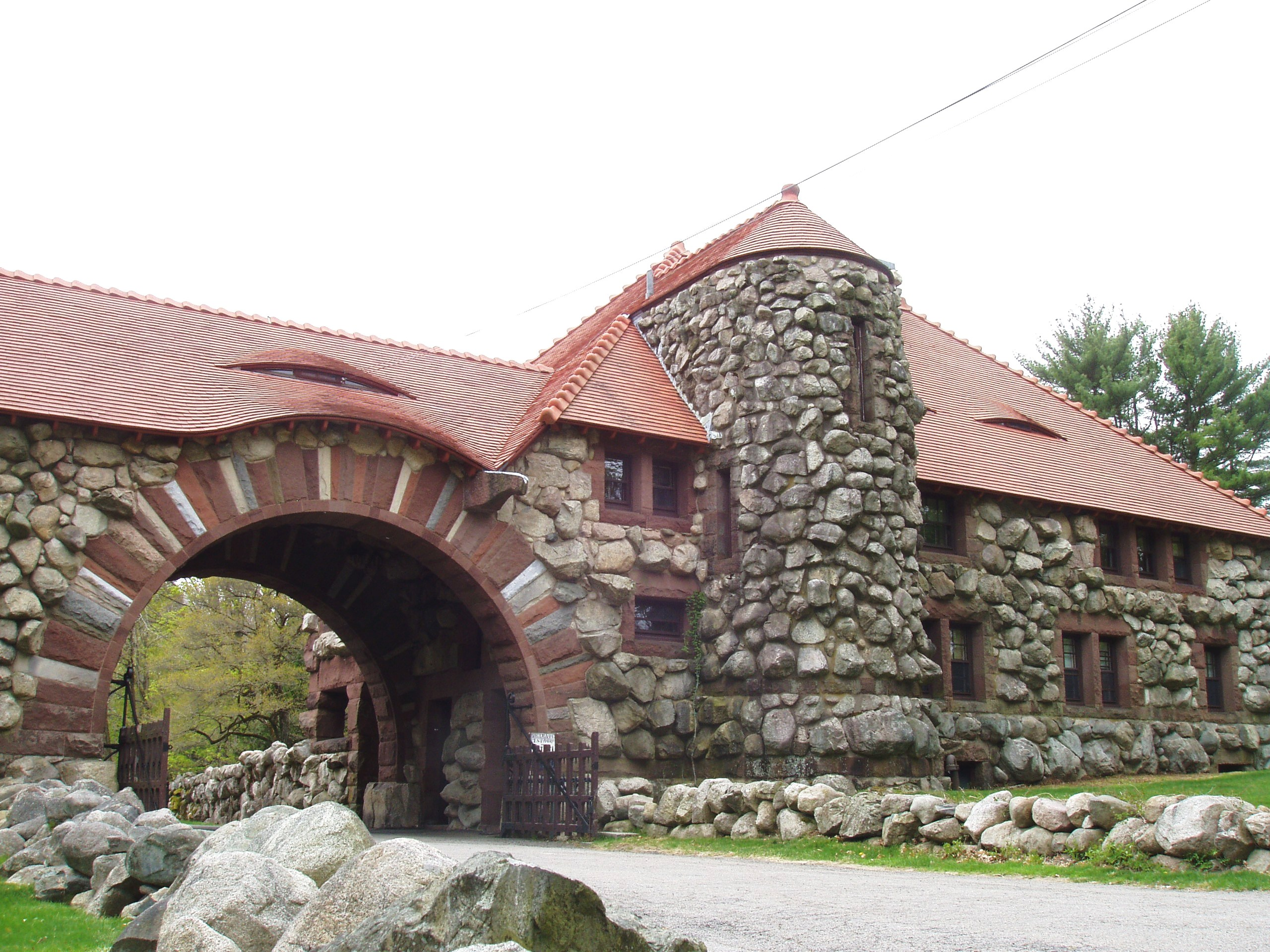 Ames Gate Lodge, North Easton, Massachusetts, USA. General view from public road.